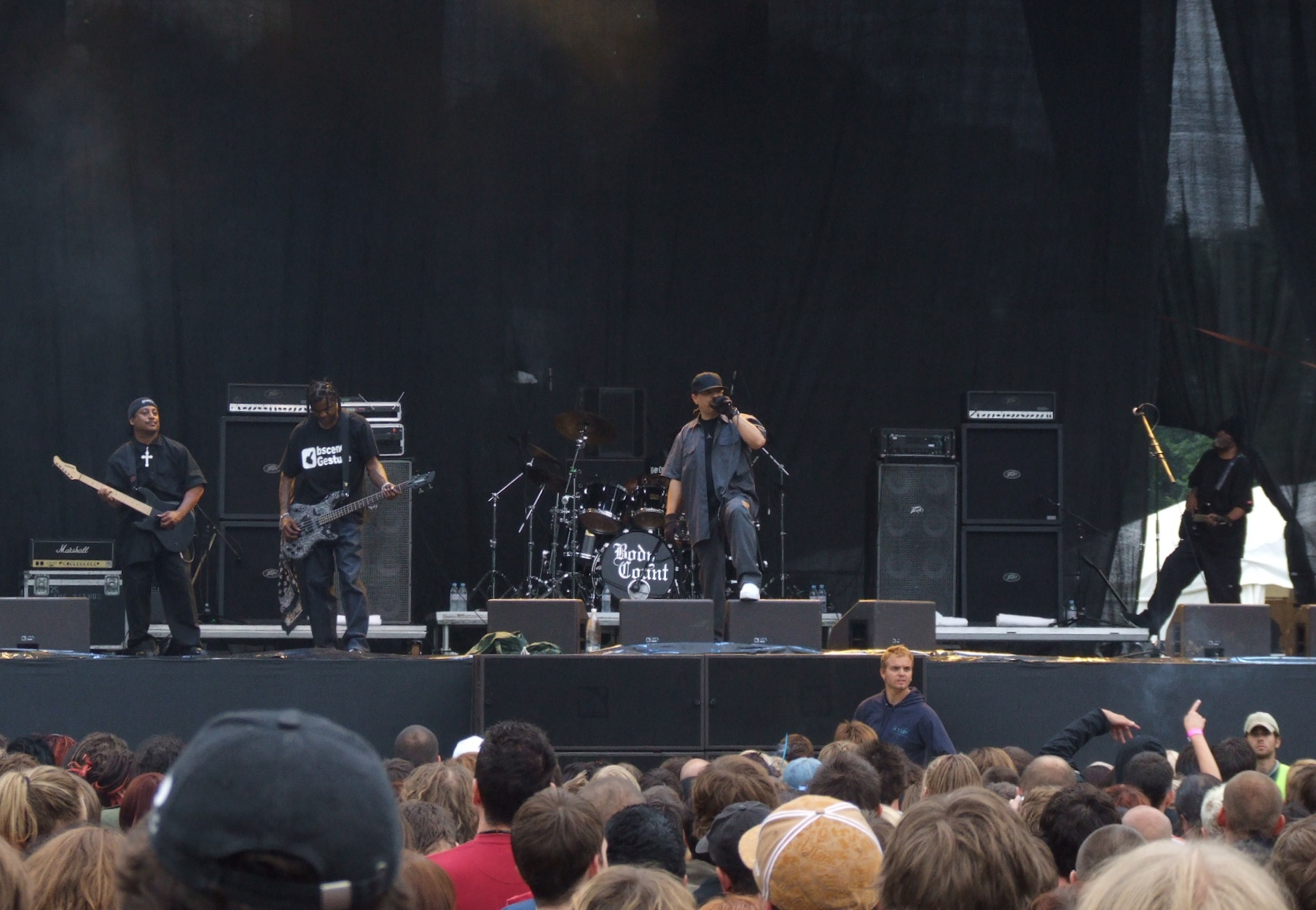 The Body Count concert in Prague, August 2006 Author: Mohylek